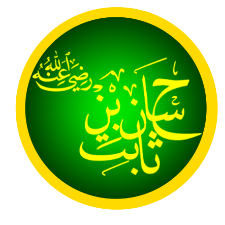 Calligraphic representation of Hassan ibn Thabit , A companion of Prophet Muhammad